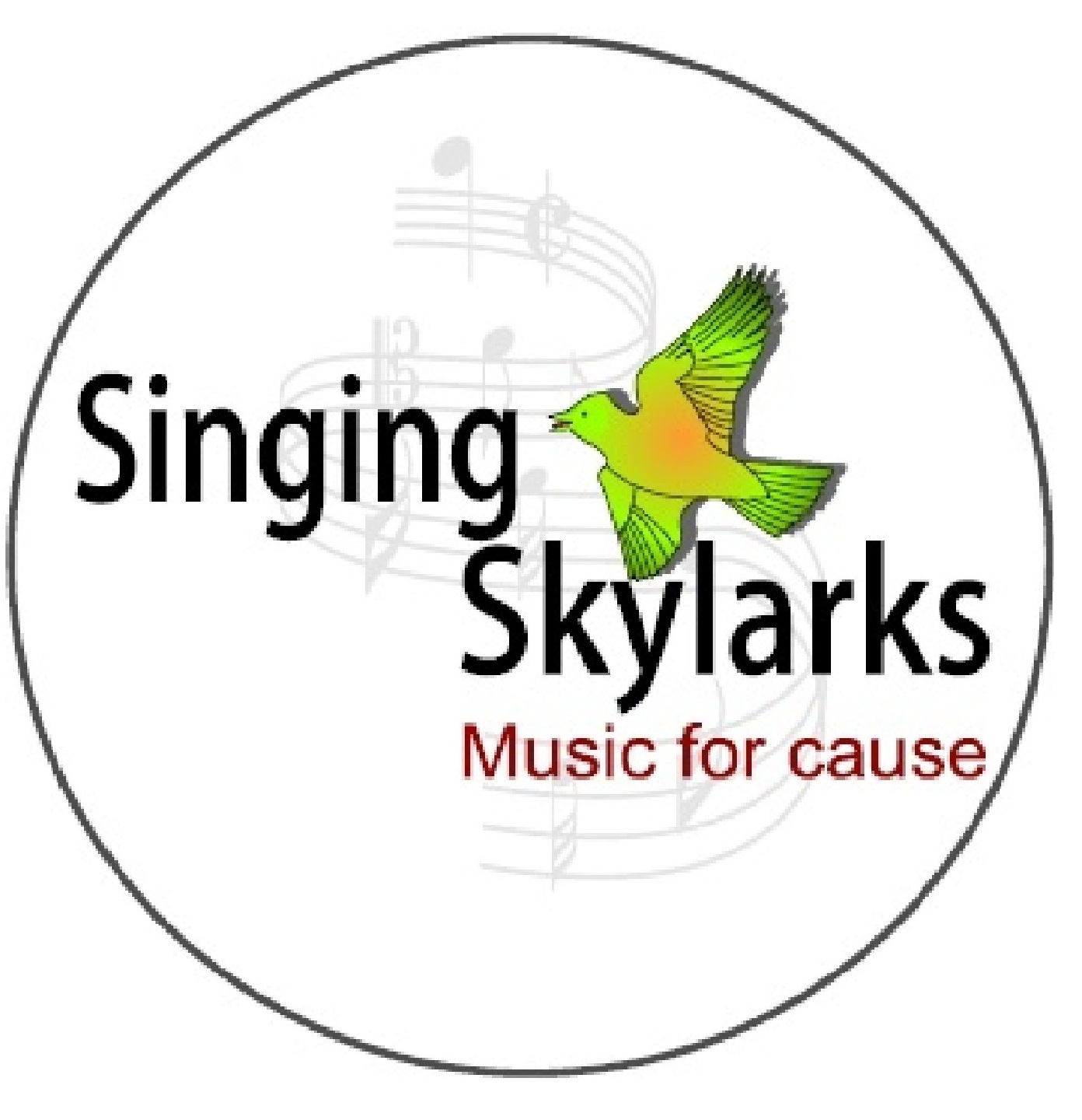 Logo of Singing Skylarks Music for a Cause